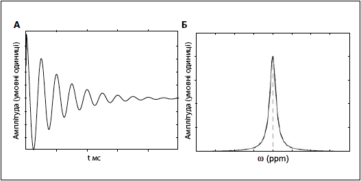 FID NMR signal